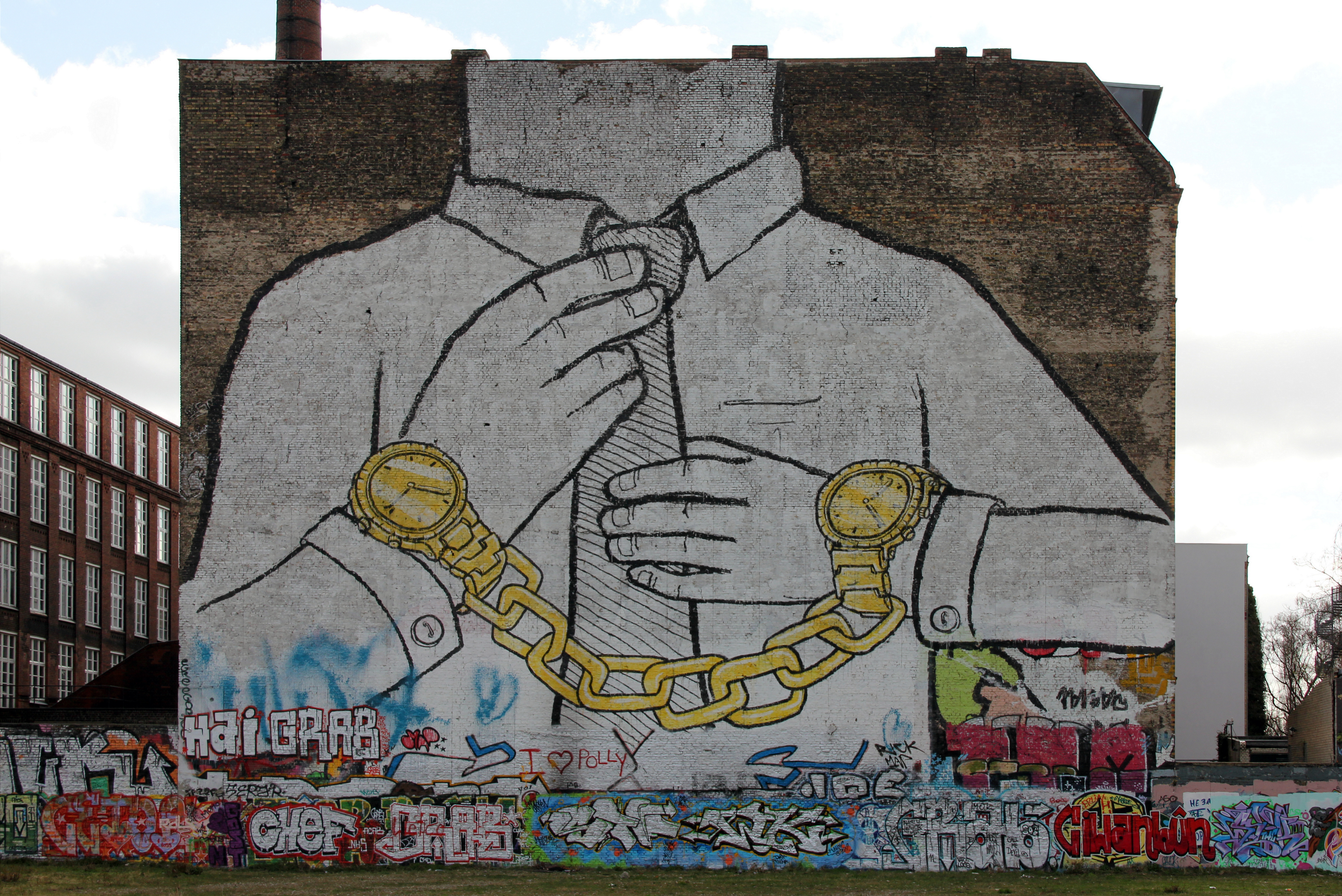 Murals, Blu Cuvrystrasse, Cuvrystraße 50, Berlin-Kreuzberg, Germany